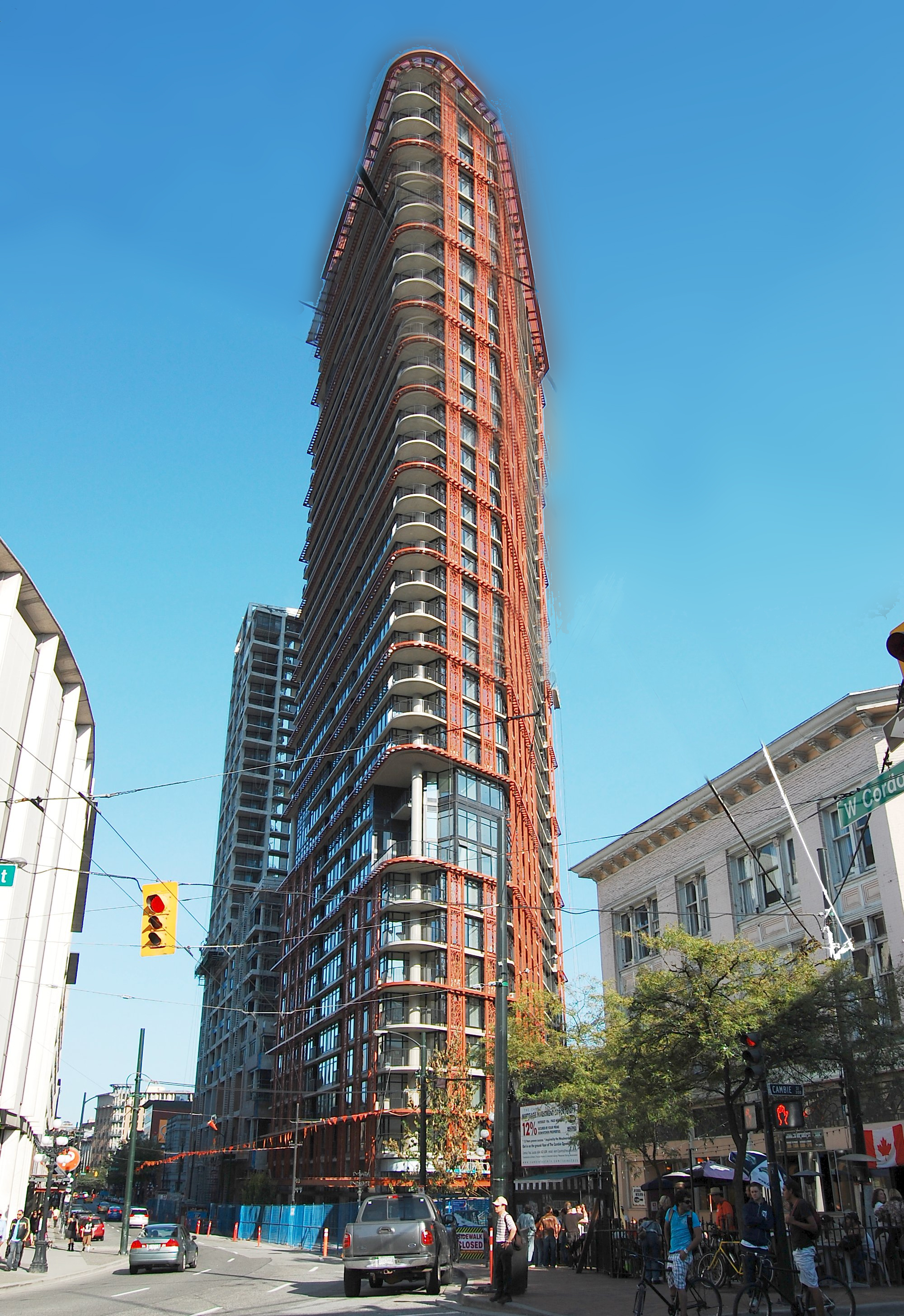 Woodwards development W43 tower,designed by architect Gregory Henriquez